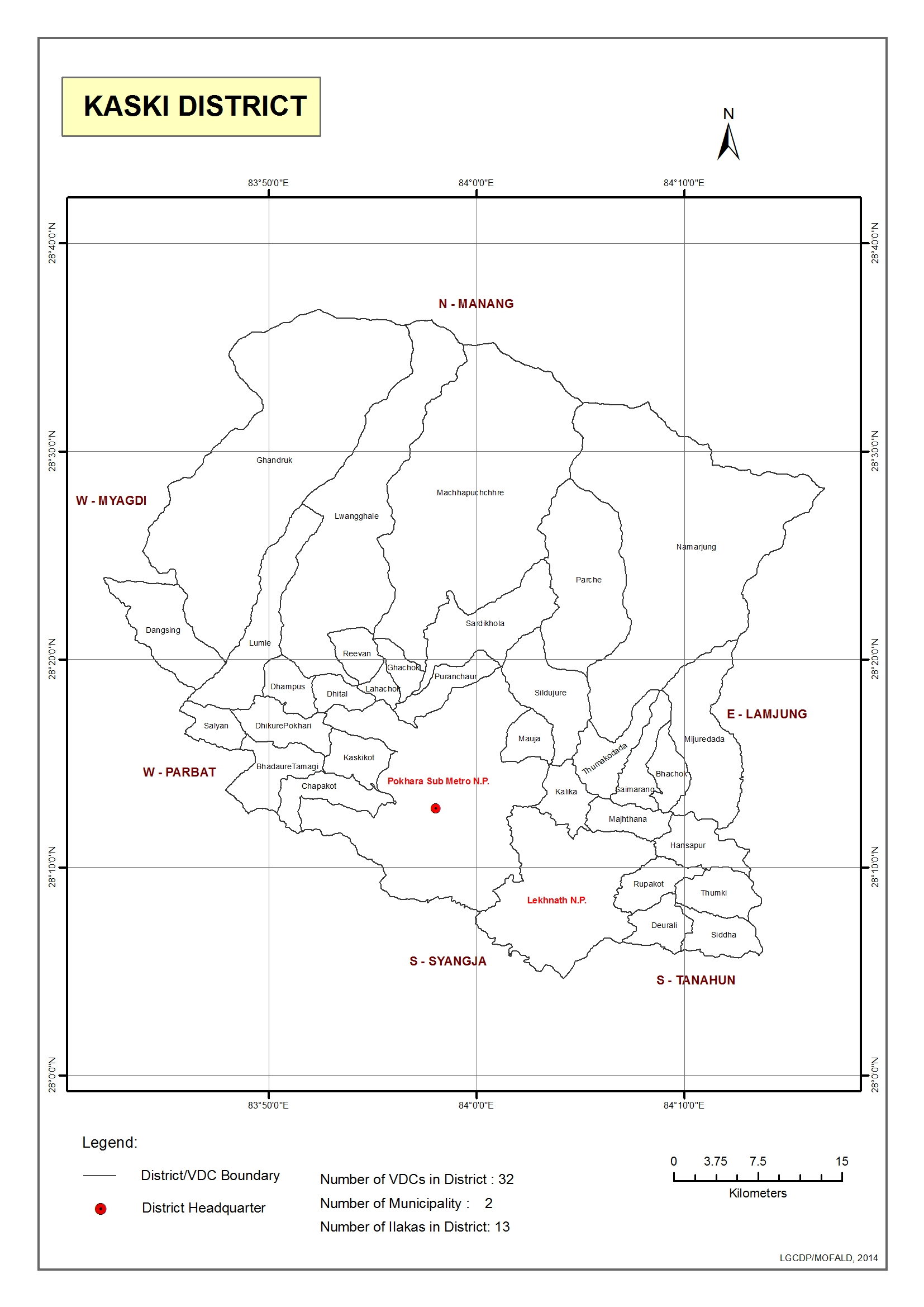 GIS (Political) Map of Kaski District showing its updated VDCs